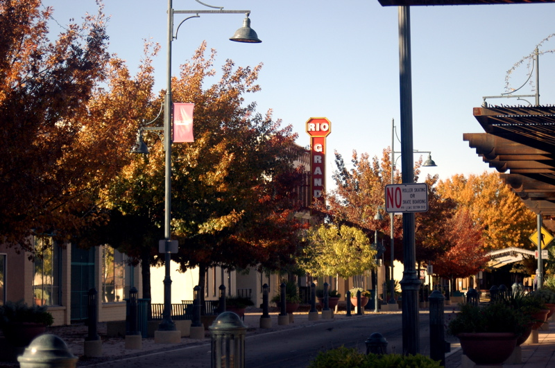 I took this picture and release it to public domain.